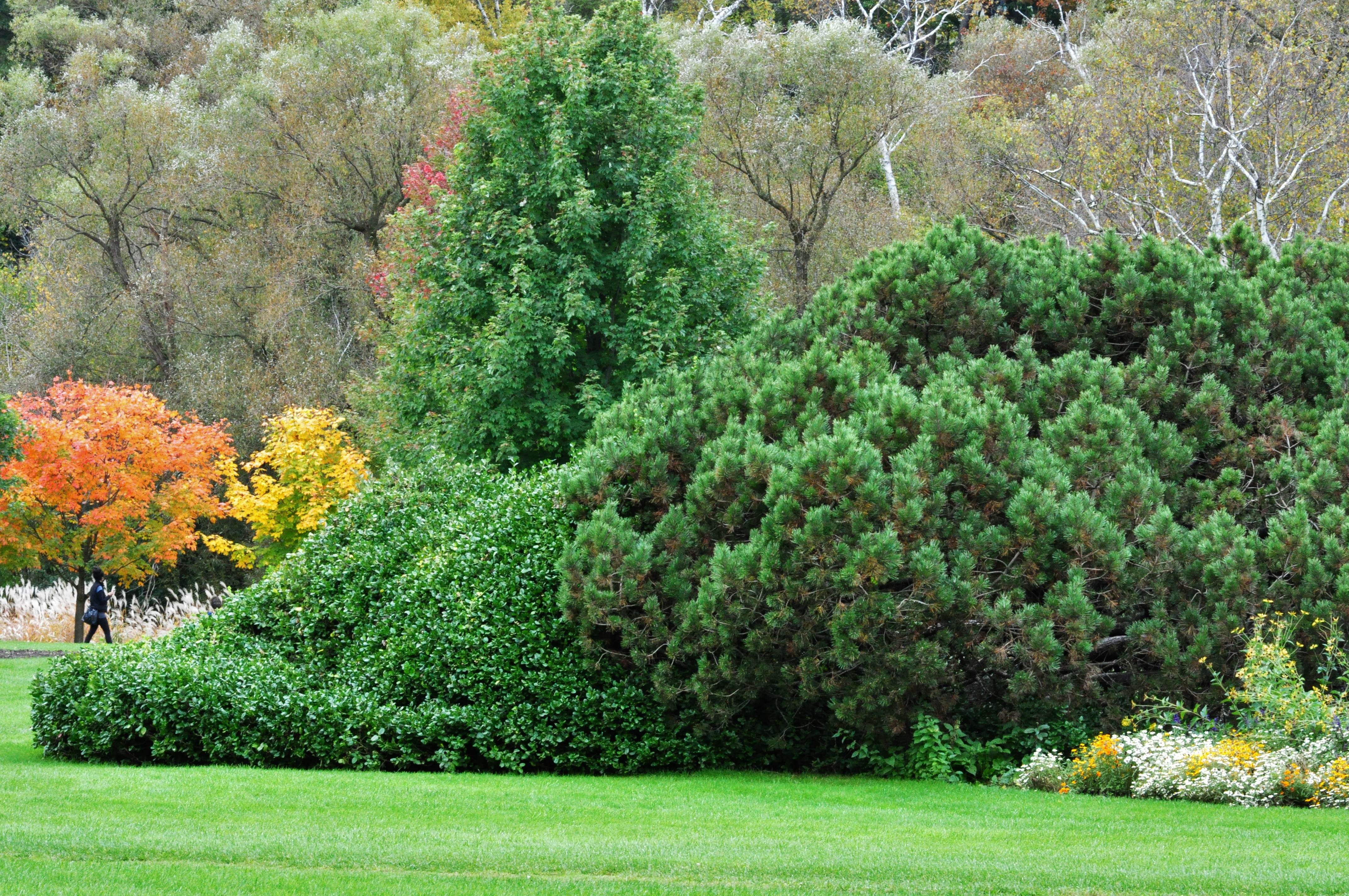 Cultivated Pinus mugo in James Gardens, Toronto, Canada